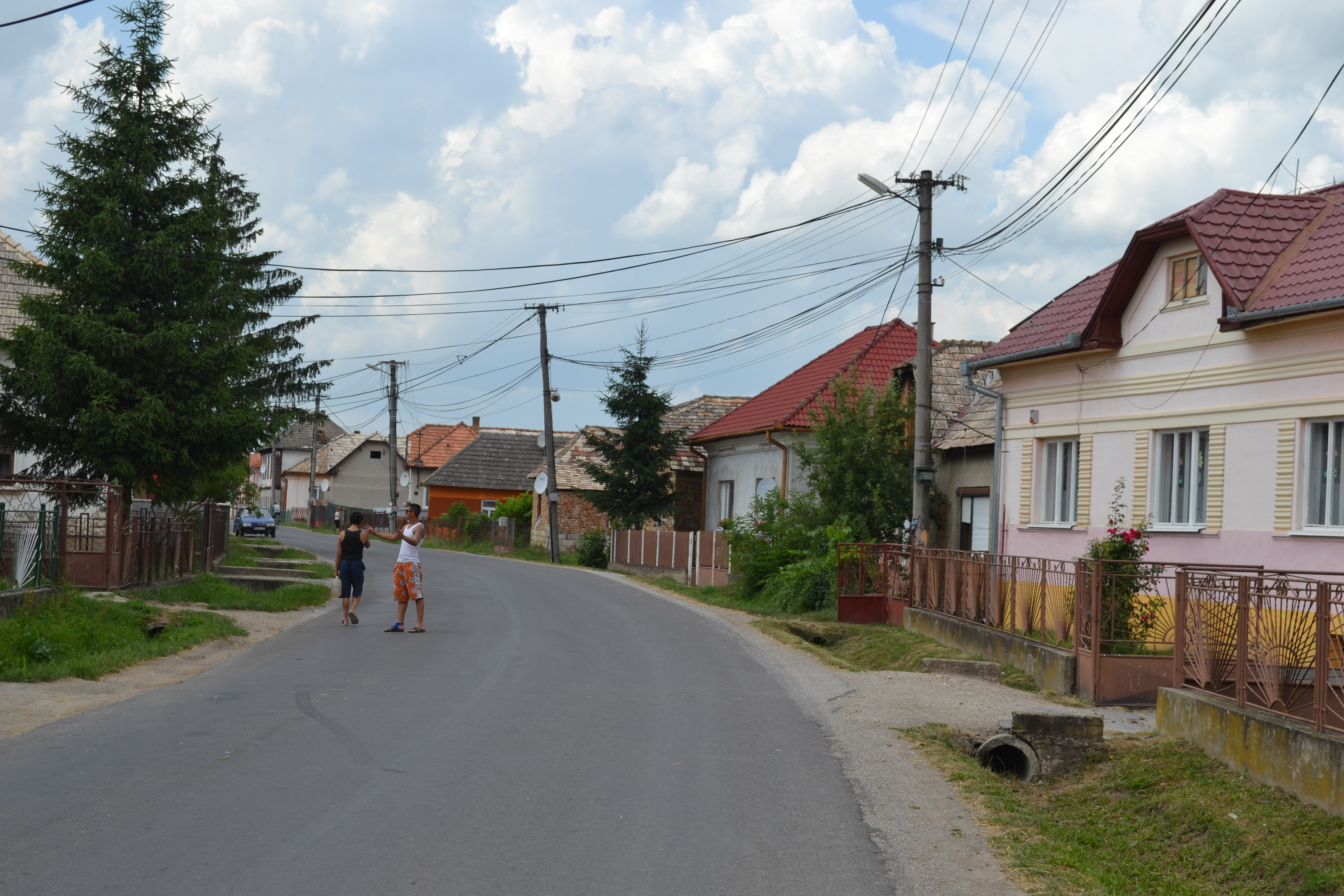 Street of the village Radnovce